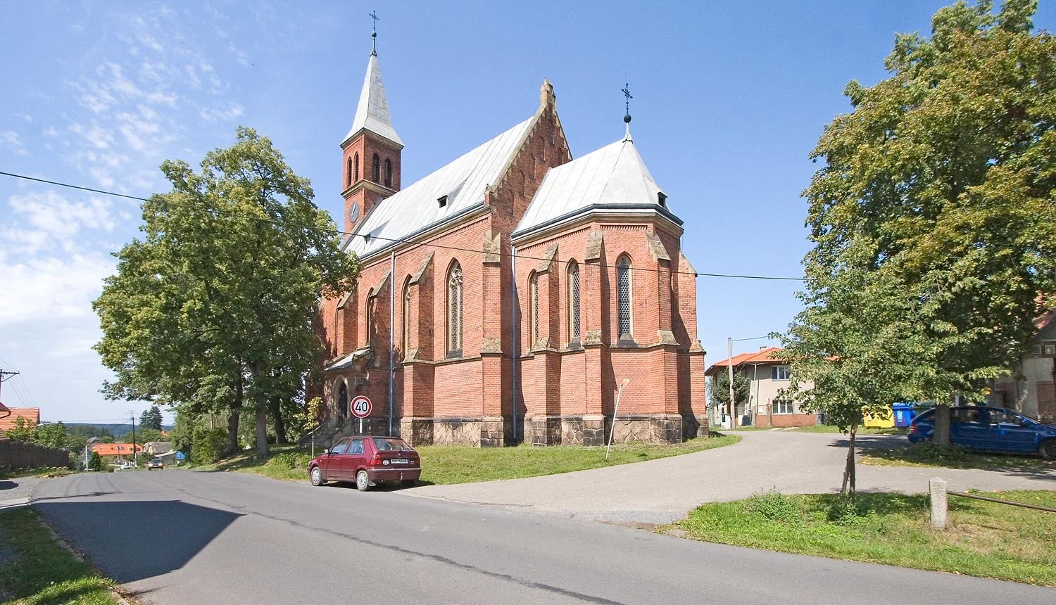 Church of St Margaret in Zvole, Prague-West District, Czech Republic.